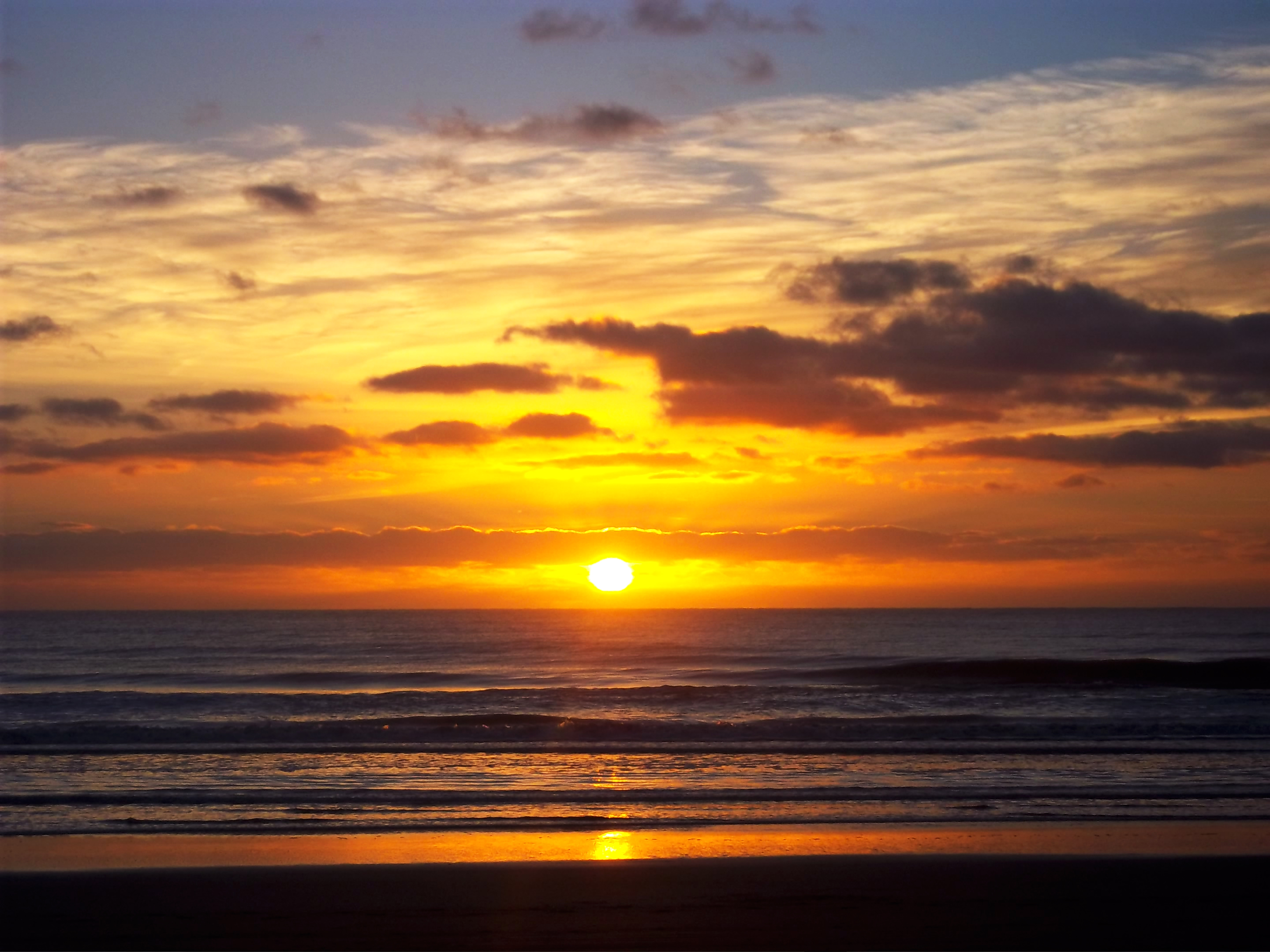 Nueva Atlantis Beach